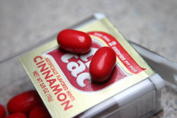 US Cinnamon Tic Tac packet with two cinnamon Tic Tacs on top.